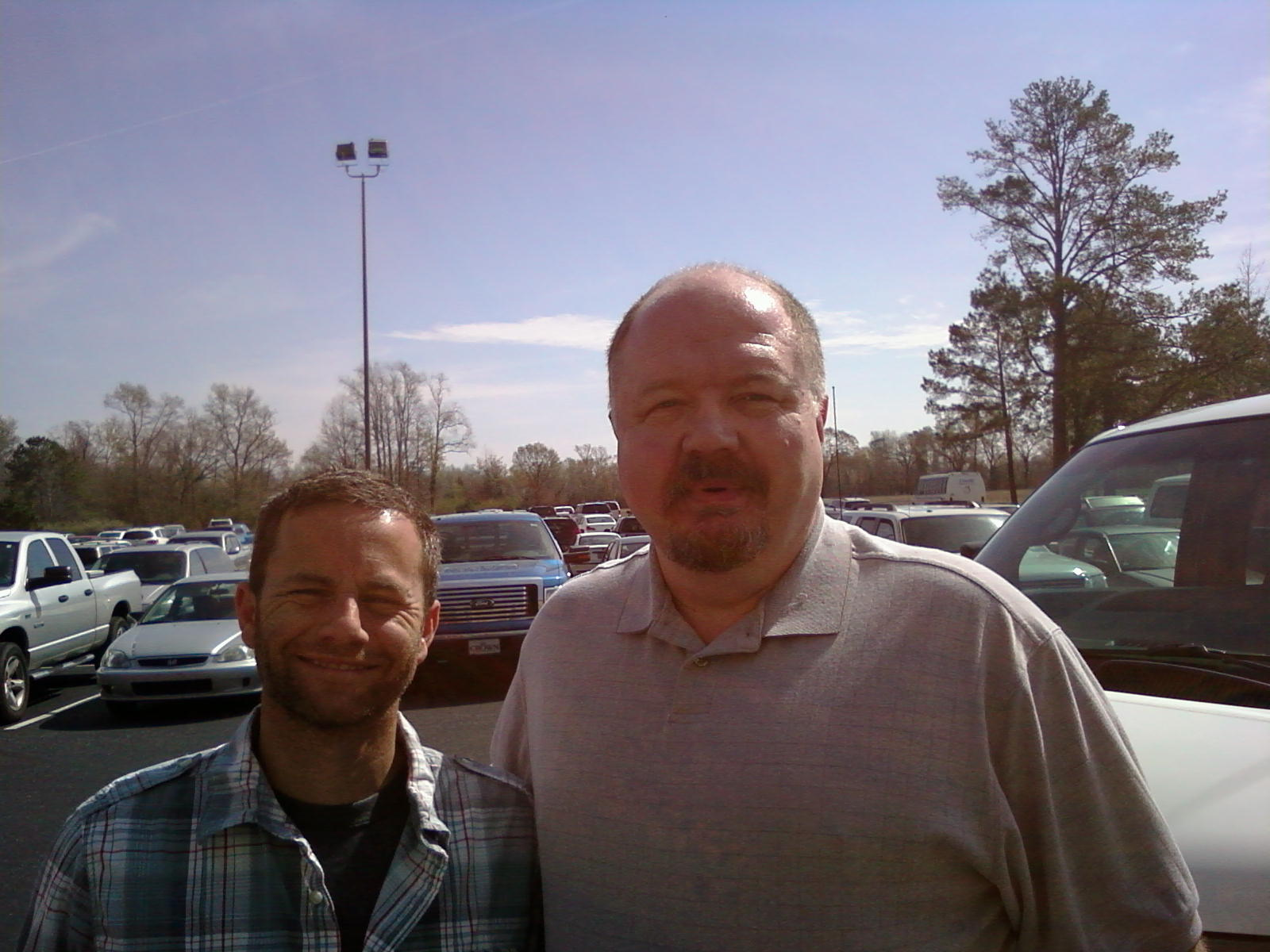 Kirk Cameron from Love Worth Fighting For Conference